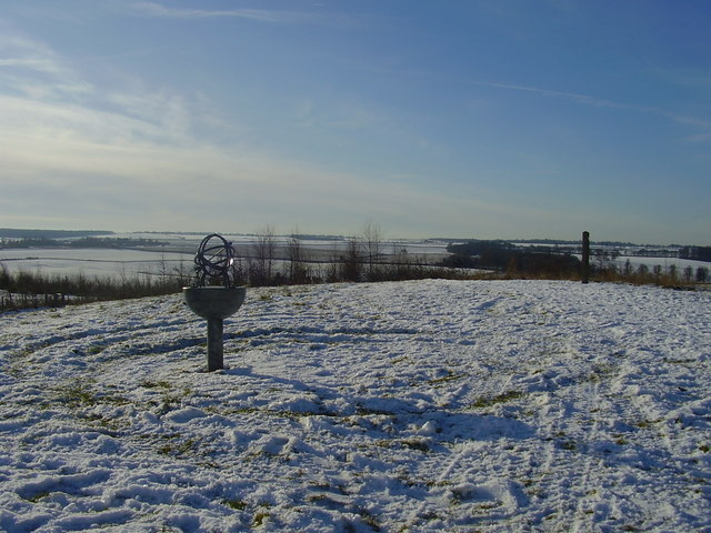 Brodsworth community woodland Summit of former colliery on a cold December day.